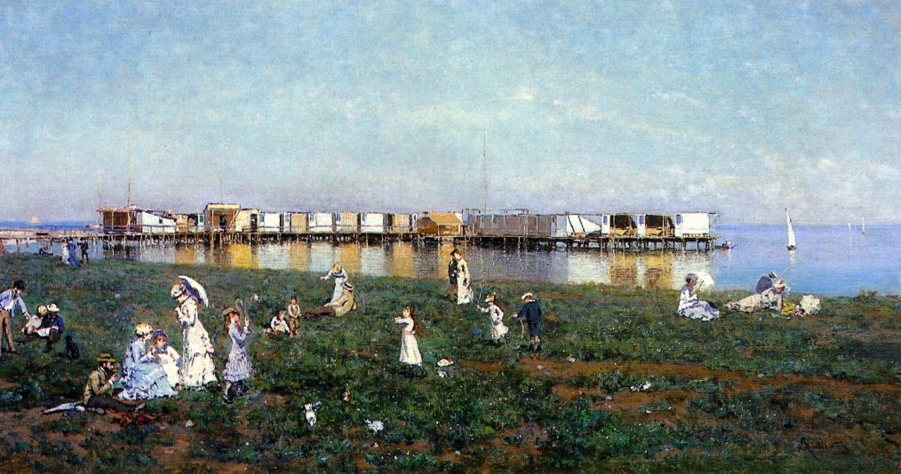 Elegant Figures on the Beach the Bay of Livorn